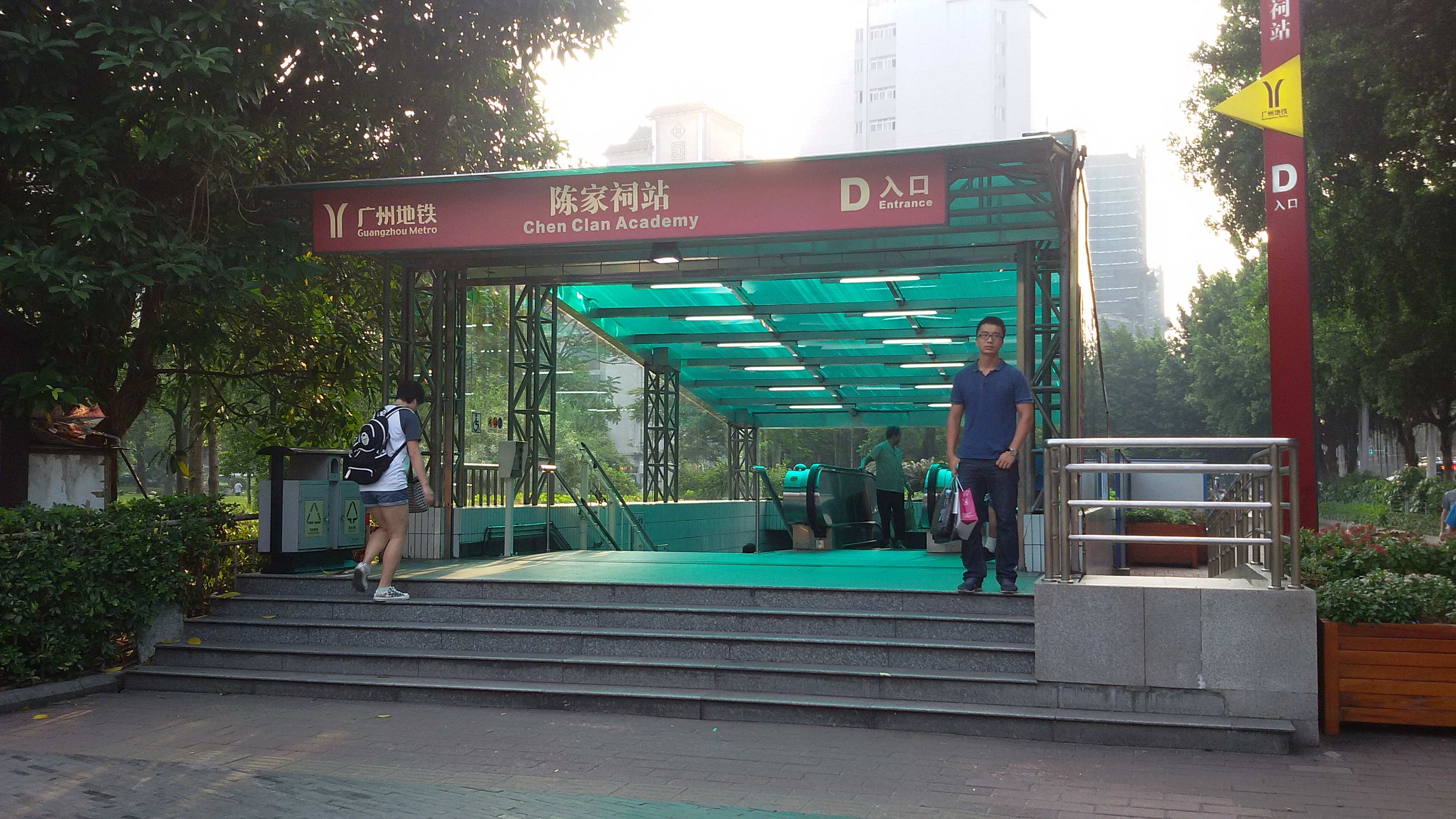 Exit D, Chen Clan Academy Station, Guangzhou Metro. 粵語: 陳家祠站嘅D出入口